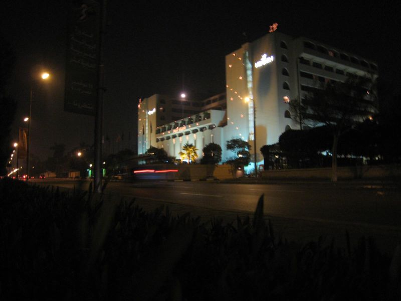 Meridian Hotel in Cairo, Egypt